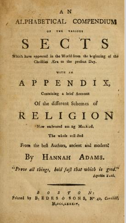 An alphabetical compendium of the various sects : which have appeared in the world from the beginning of the Christian aera to the present day. With an appendix, containing a brief account of the different schemes of religion now embraced among mankind (1784), by Hannah Adams